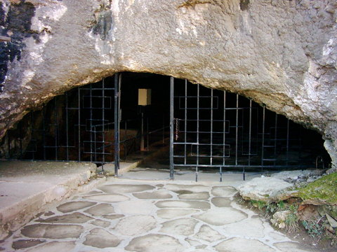 The entrance to the Bacho Kiro cave in Bulgaria